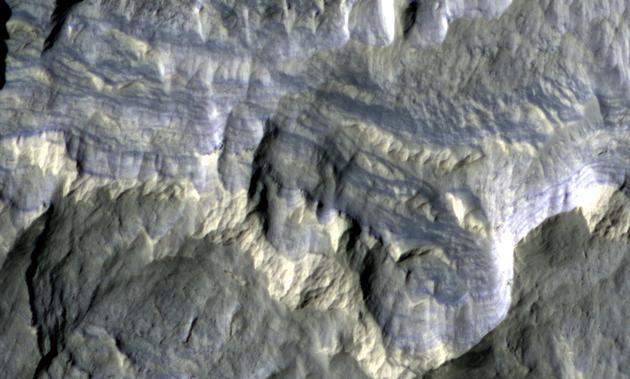 Columbus Crater Layers, in false-color as seen by hirise. Location is 28.6 degrees south latitude and 194.3 degrees east longitude. Image was taken by the Mars Reconnaissance Orbiter's HiRISE. The HiRISE camera was built by Ball Aerospace and Technology Corporation and is operated by the University of Arizona. Image courtesy NASA/JPL/University of Arizona.